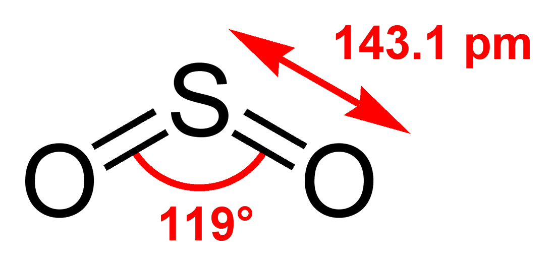 Structure and bonding in the sulfur dioxide molecule, SO2